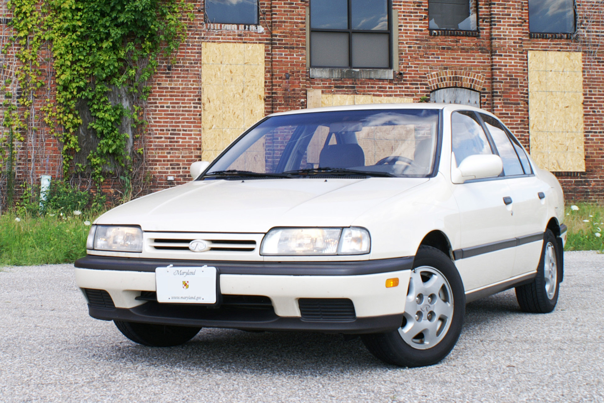 Author: David Fulton-Howard